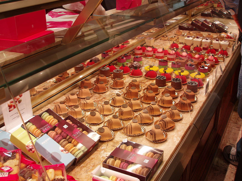 Sweets in WITTAMER